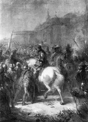 Surrender of Breda after the siege of 1637, from an oil painting by J.H. Egenberger, used as an illustration in Dedalo Carasso, Helden Van Het Vaderland: Onze Geschiedenis in 19de-Eeuwse Taferelen Verbeeld De Historische Galerij Van Jacob De Vos Jacobszoon, 1850-1863